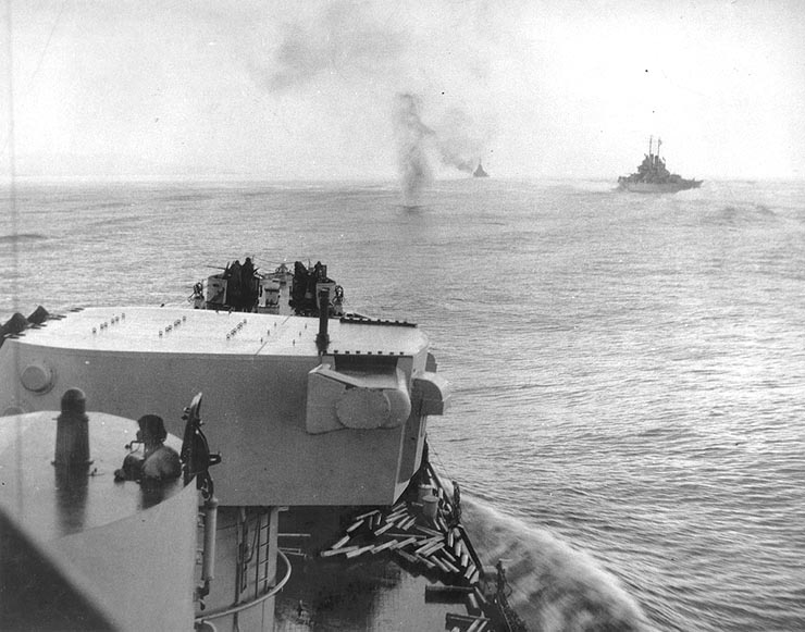 A Japanese plane plunges into the sea ahead of the U.S. Navy light cruiser USS Columbia (CL-56), as she steams in column with other cruisers during the attack on Bougainville, 1-2 November 1943. Note the 6"/47 gun turrets, with six-inch shell casings on deck below them. The sailor in the left foreground is spotting from the 5" DP dual mount behind the forward 6" turrets.